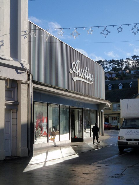 Austin's, Newton Abbot The unlovely southern part of the family-run department store, whose other premises, where they front onto Courtenay Street, are rather grander. But perhaps this is gradually developing a period charm?